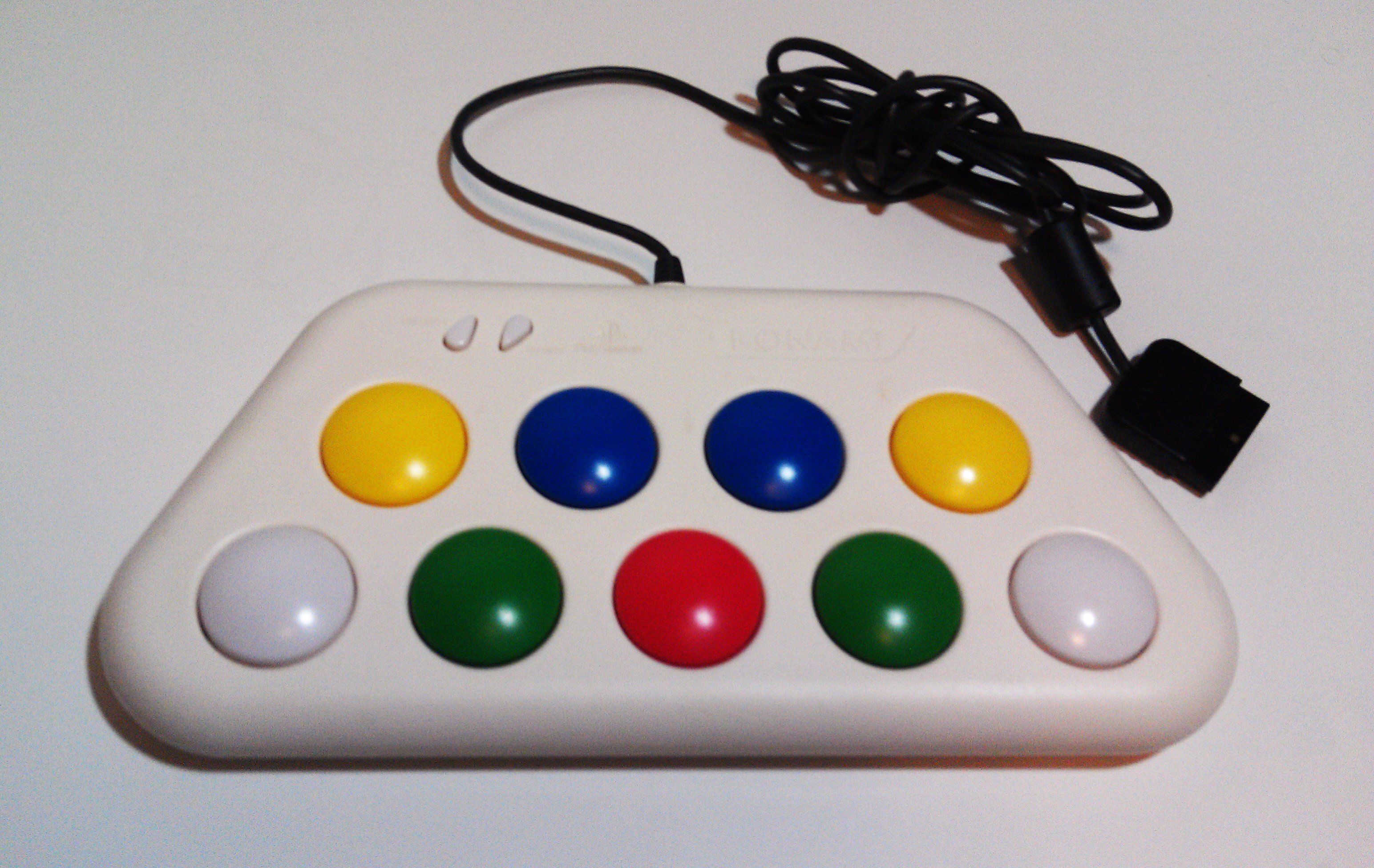 Photograph of an official Konami Pop'n Music Mini-controller.